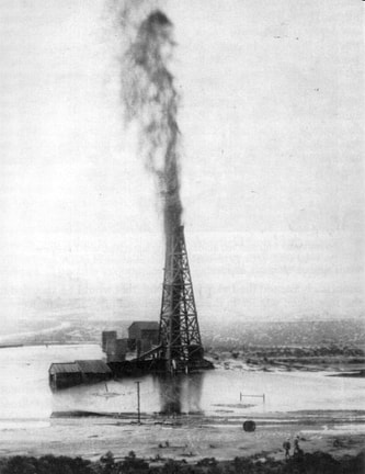 Lakeview No. 1 gusher, 1910. Photo courtesy San Joaquin Valley Geologic Society. On March 15, 1910, the Lakeview No. 1 well of Union Oil Company blew out. For the next eight months, the Lakeview No. 1 gusher spewed oil uncontrolled, coating the surrounding countryside in petroleum and creating a huge lake of oil and sand at the derrick’s base that soon swallowed the derrick and drilling equipment. Workers eventually contained the lake using sandbags, but for ten more months oil continued to pour out of the well. Very little of the oil was saved and most evaporated or seeped into the ground. On September 10, 1911, the bottom of the crater caved in and the well ceased gushing oil. Workers have since filled in the crater and erected a plaque to mark the site.